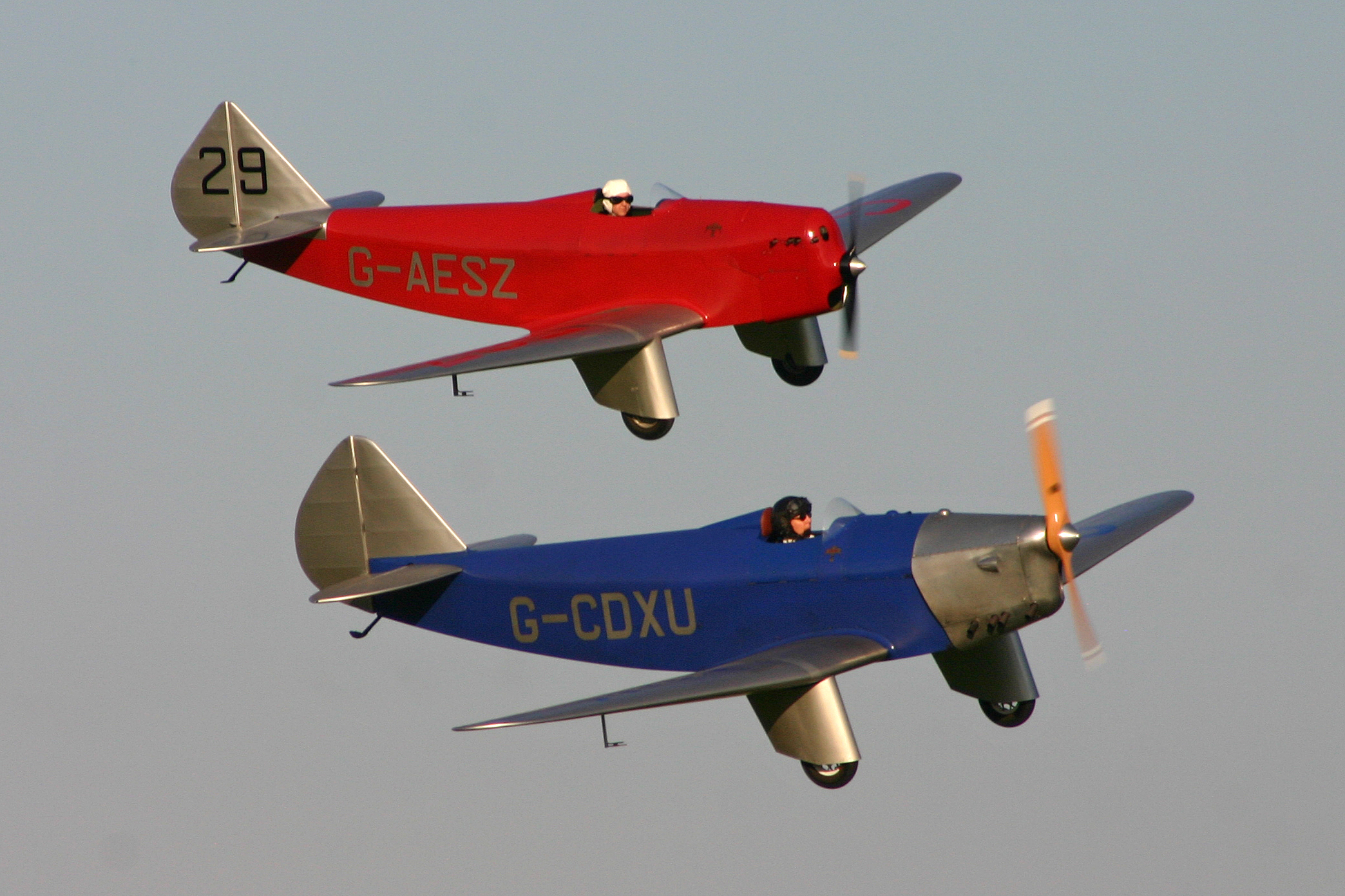 Chilton DW1 formation consisting of genuine 'G-AESZ' and new built 'G-CDXU'. Displaying at Old Warden. 02-10-2011